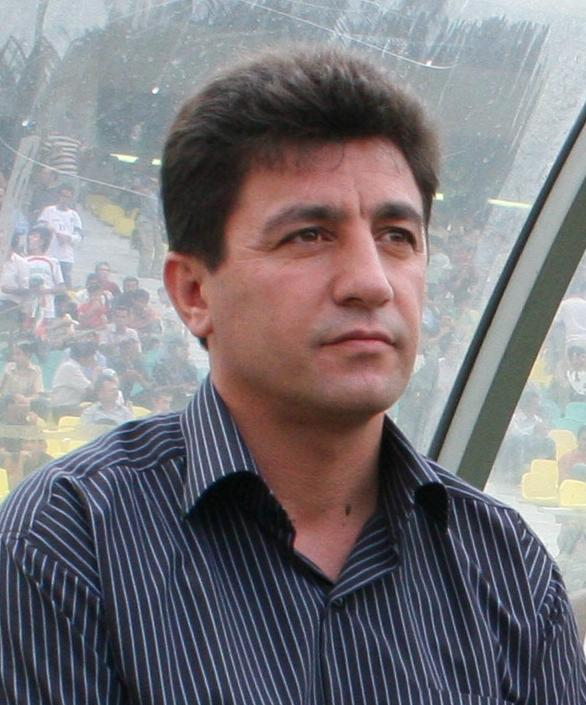 Amir Ghalenoi in 2006